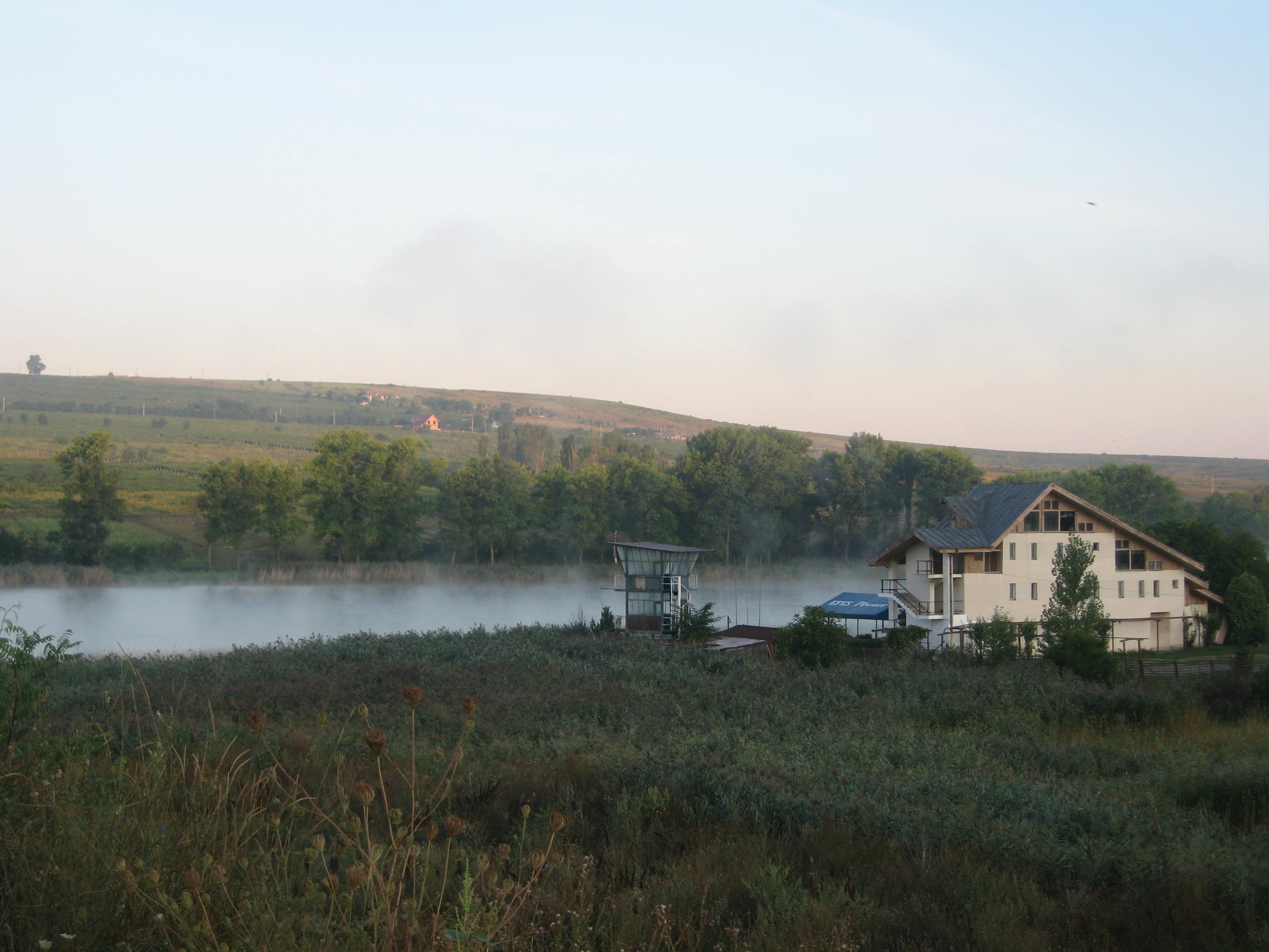 Lacul Dorobanţ